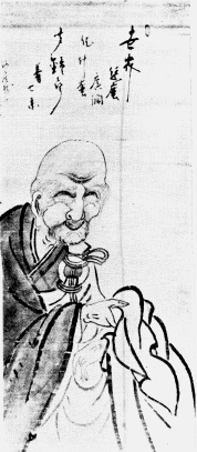 Zen master Yunmen Wenyan (862/4-949), styled Ummon Bun'en (or Unmon) by the Japanese. Painting by Hakuin, one of three hanging scrolls comprising a set, with Daruma and Rinzai in the others. This seems to be Eihoji temple copy.[1] But other copies of three scrolls are known e.g. at Jōkōji (定光寺)